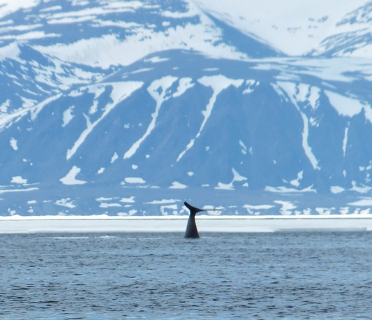 Bowhead tail wave near ice edge north of Baffin Island